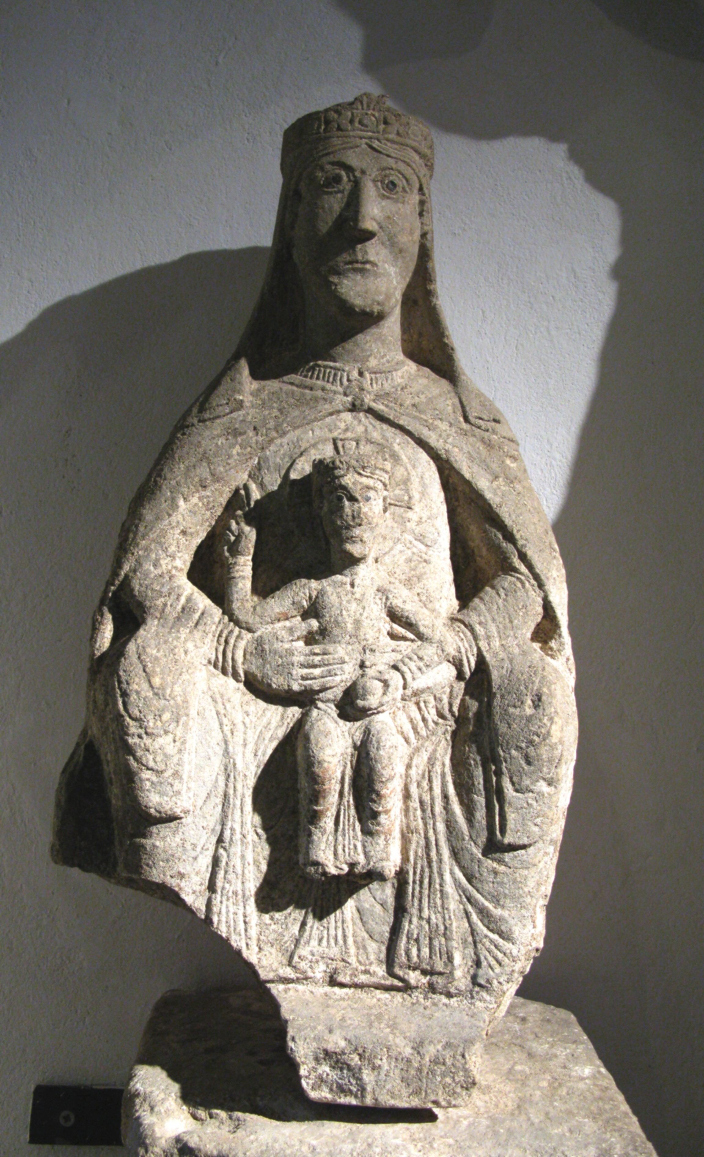 Madonna of Goźlice.